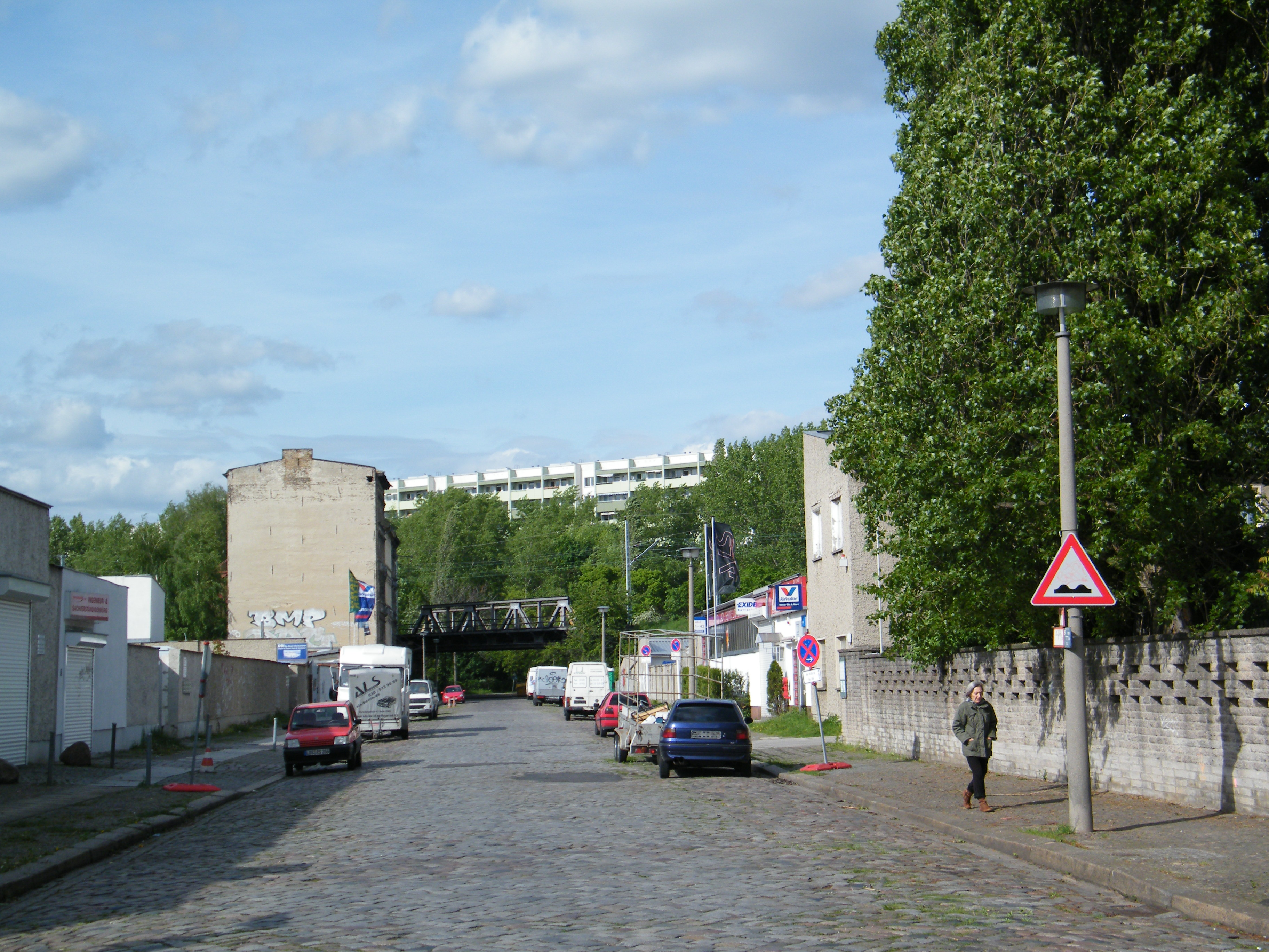 Berlin-Lichtenberg, Frankfurter Allee Süd, Wartenbergstraße